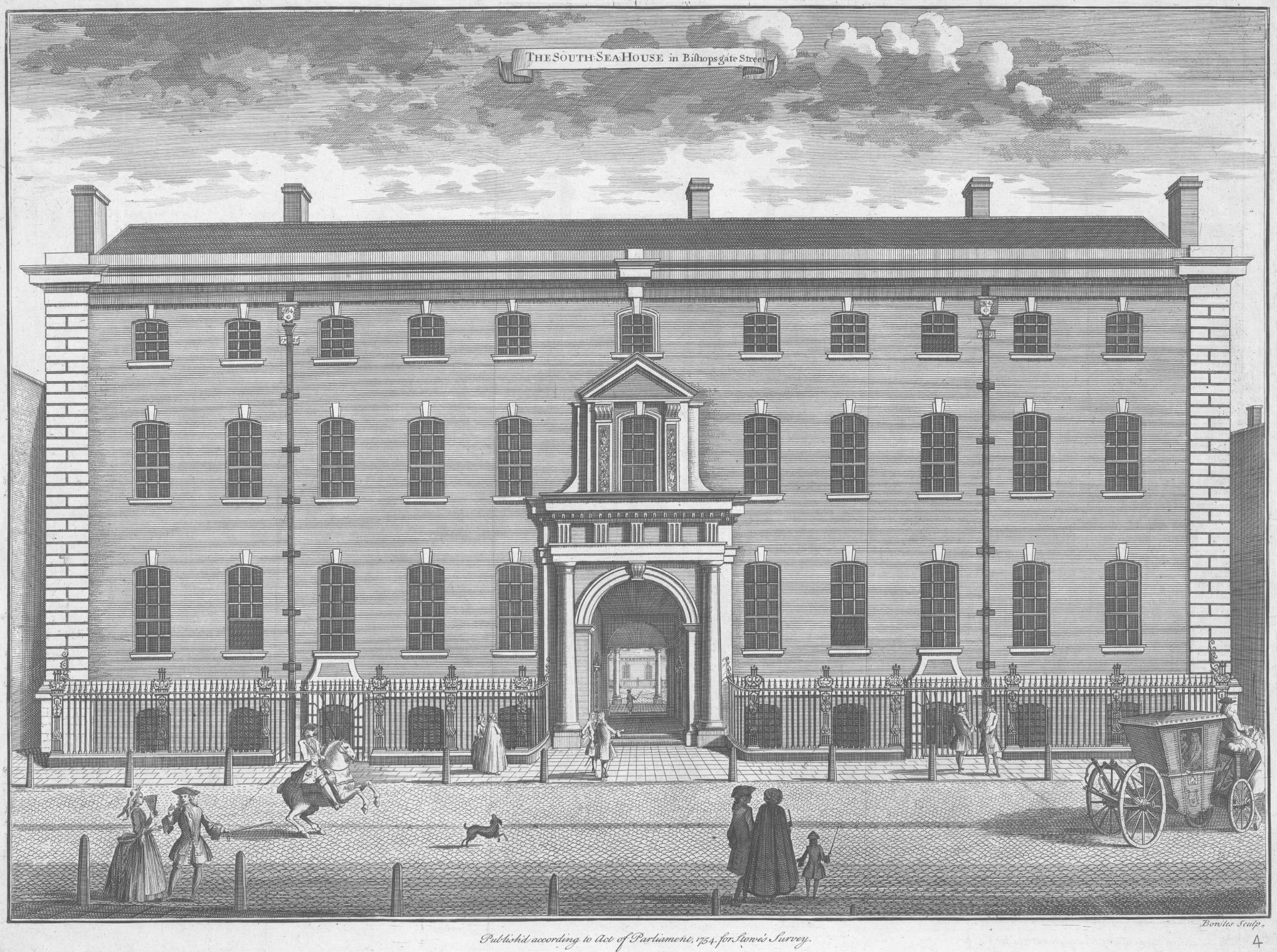 "The South-Sea House in Bishops-gate Street", engraving by Thomas Bowles, published 1754. Inscribed "Bowles sculp." and "Publish’d according to Act of Parliament, for Stowe’s Survey, 1754". The topmost lead brackets on the down-pipes from the hopper heads are inscribed "1725", presumably the date of the building. The hopper heads display the Company's arms. The building was situated on the corner of Bishopsgate Street and Threadneedle Street, in the City of London (see Thornbury, Walter, Old and New London, Vol.1, p.543).